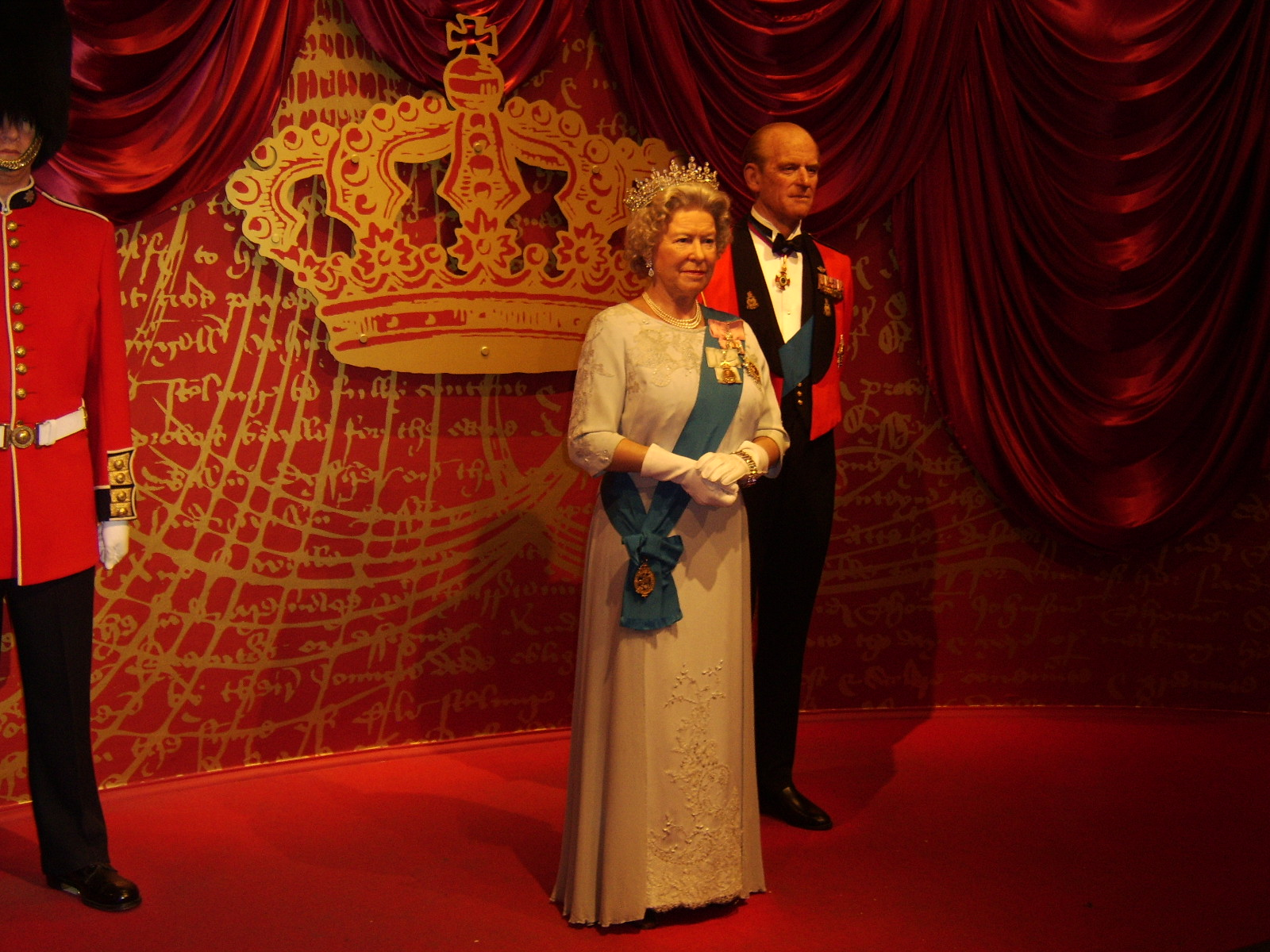 Perhaps the most known person at Madame Tussauds: the Queen. Photo taken by me 4.5 2007. Use freely.